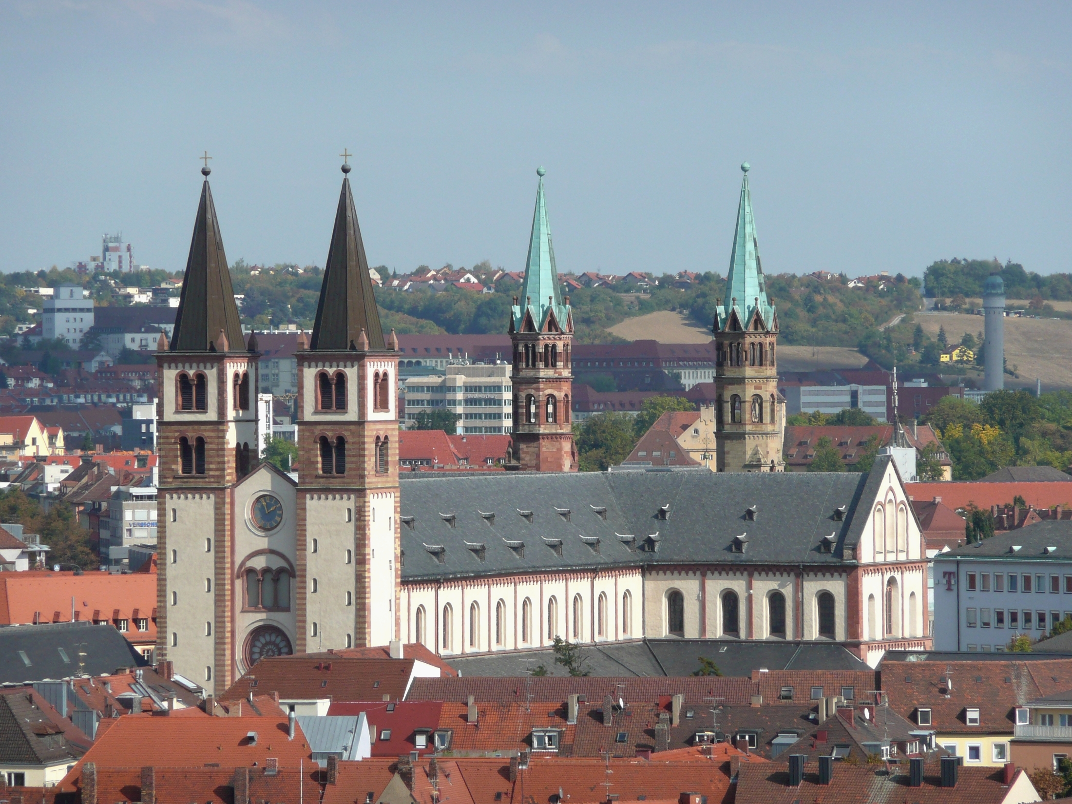 Würzburg Cathedral, view from Fortress Marienberg